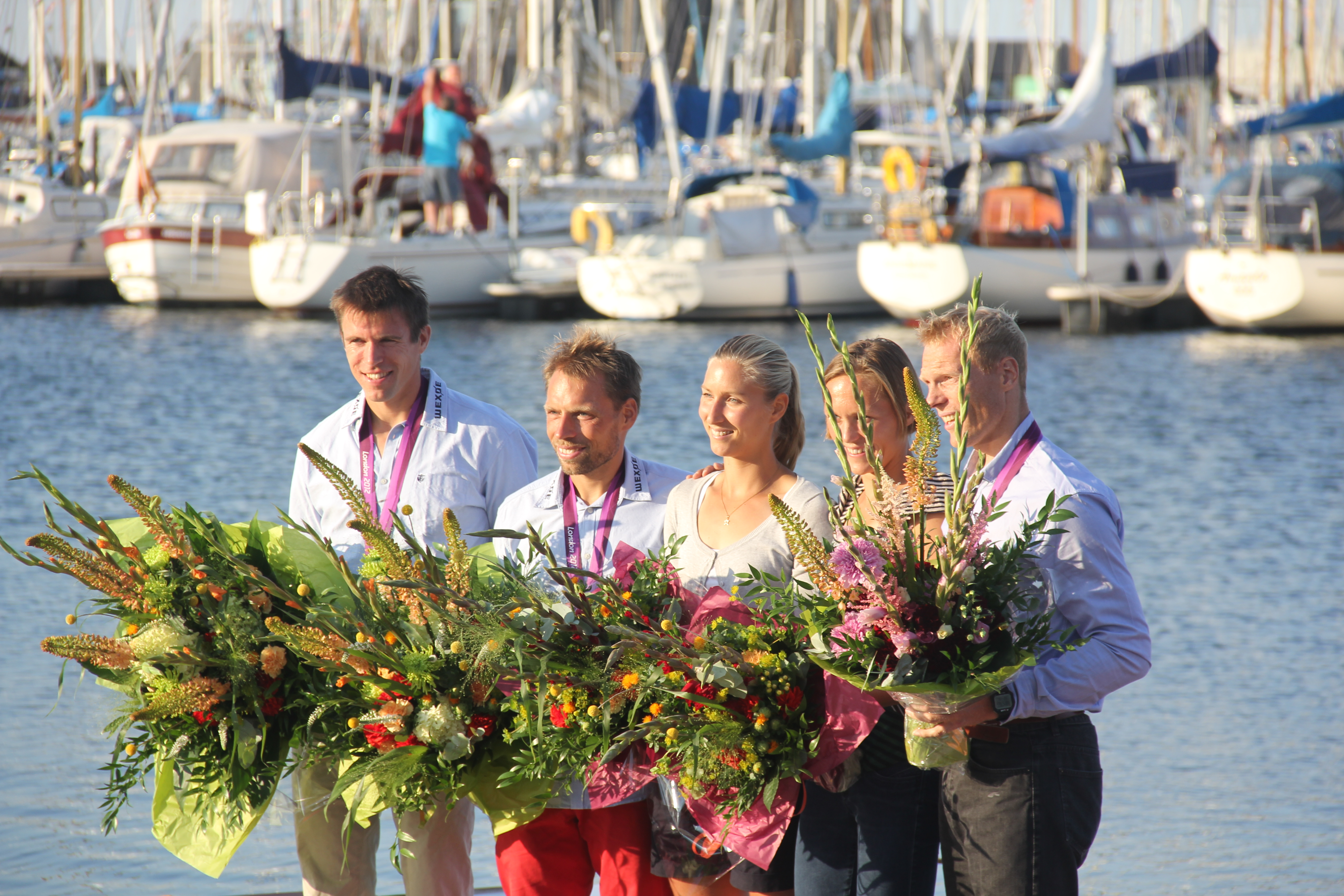 Danish rowers back from London 2012 olympics